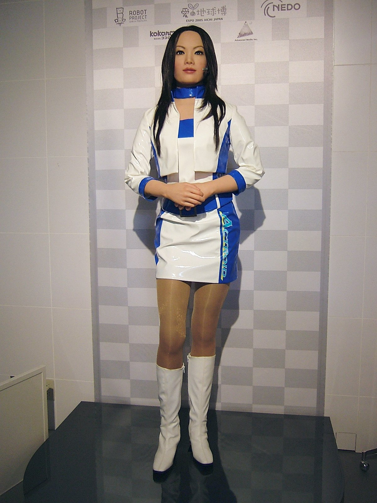 Actroid-DER, developed by KOKORO Inc for customer service, appeared in the 2005 Expo Aichi Japan. The robot responds to commands in Japanese, Chinese, Korean, and English.